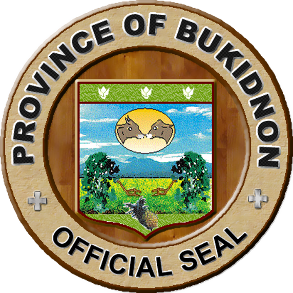 Provincial seal of Bukidnon, Philippines. Description from government website: Two Big Trees - Picture the thick forests of the province. Three Orchids - Symbolizes the rich flora of Bukidnon. Bull and Cow - Represents the cattle industry of the province. Rice Paddies - Symbol of lowland rice production in the central part of the province. Mountain Range - Stands for the many mountain ranges and the high elevation of the province. Iron Crosses - Symbol of Christianity that has been embraced by its people.